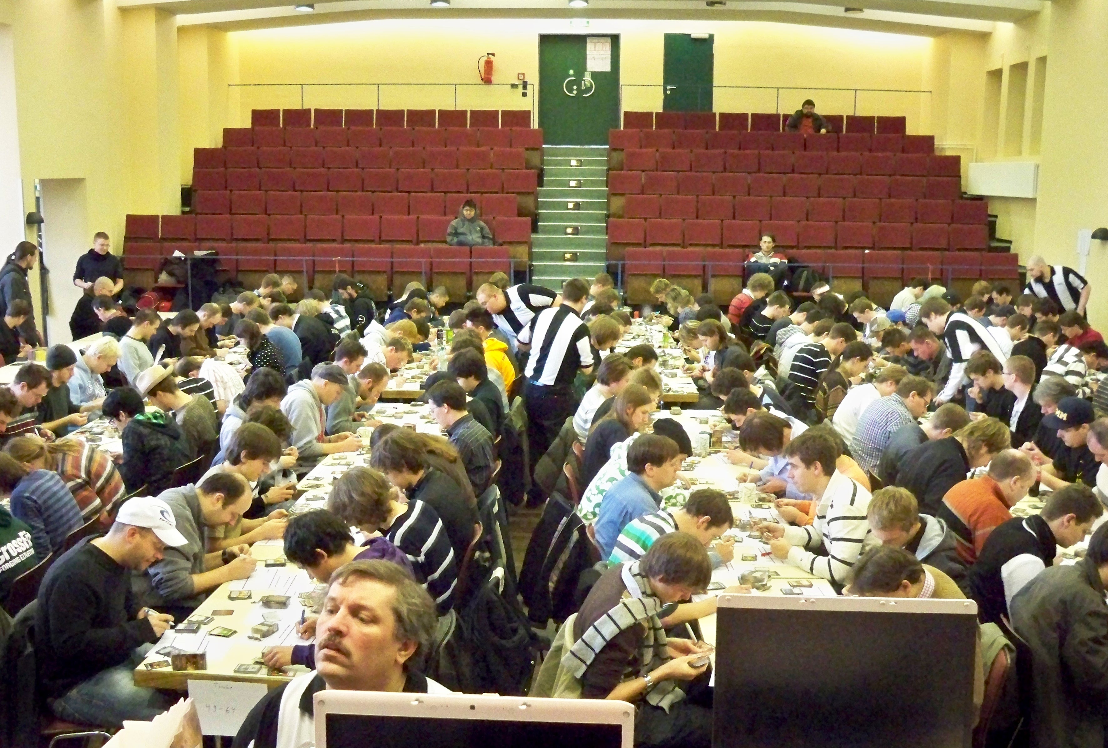 A Magic: The Gathering tournament in Frankfurt/Main (Pro Tour Qualifier for Kyoto)